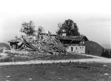 Caption: Herman Goering's house at Berchtesgaden, Bavaria. As Hitler's and Borman's houses so this one was bombed. Citation: Arthur Voth Photographs, 1947-1949. HM4-387 Box 1 Folder 2 photo 18. Mennonite Church USA Archives - Goshen. Goshen, Indiana.